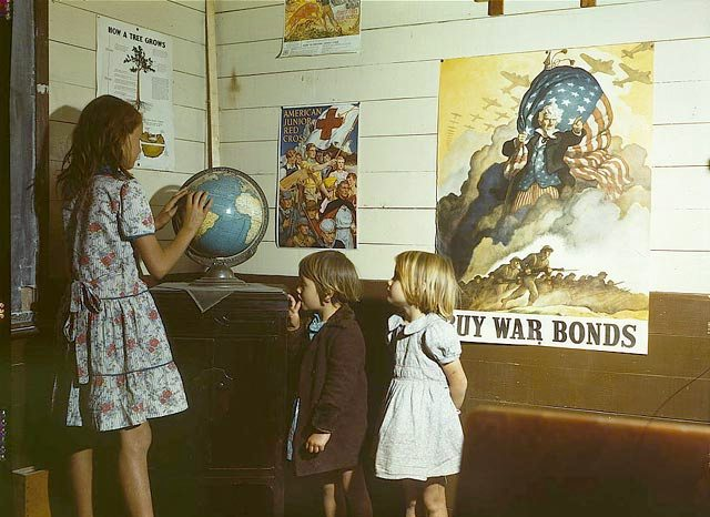 Rural school children in front of World War II homefront posters. One studies a globe atop a Victrola. San Augustine County, Texas.